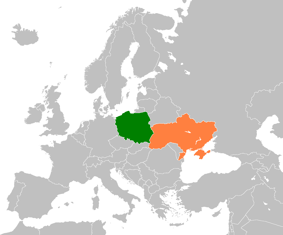 Map of Europe, highlighting Poland and Ukraine.